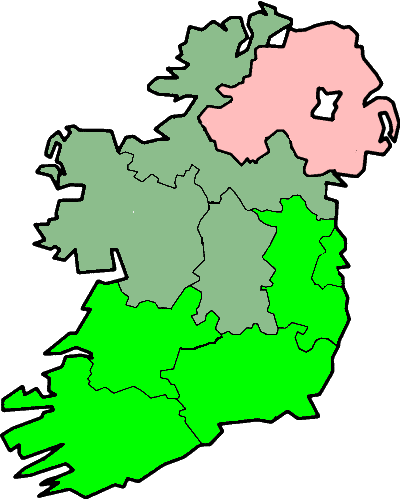 Southern and Eastern, NUTS-2 regions of the Republic of Ireland.